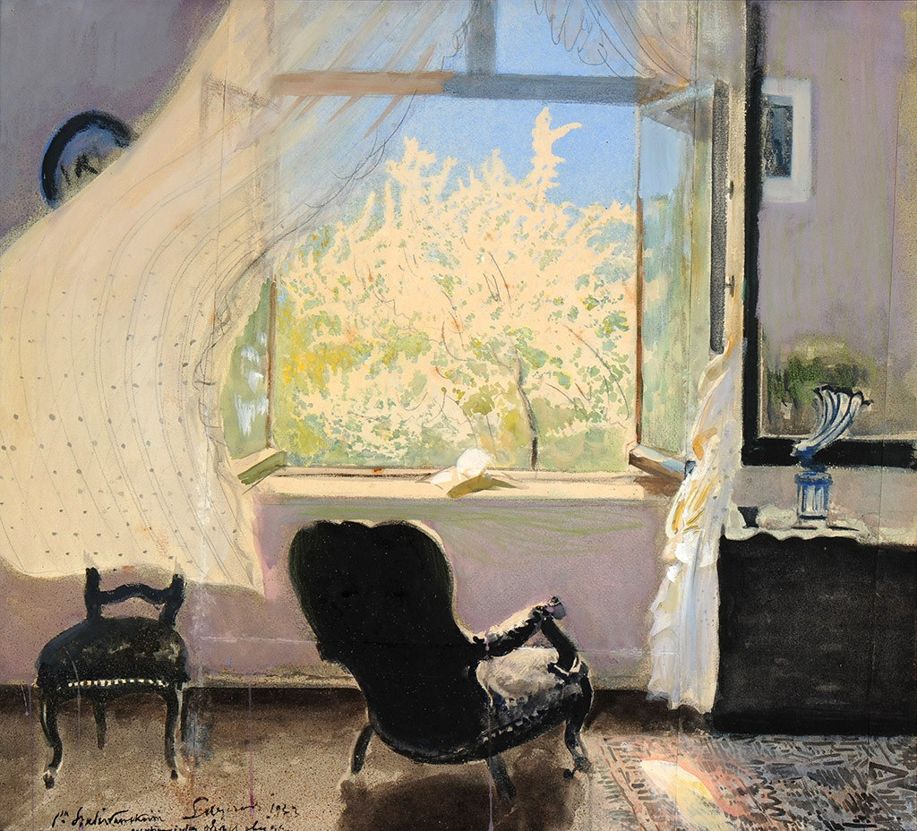 Spring in Gościeradz